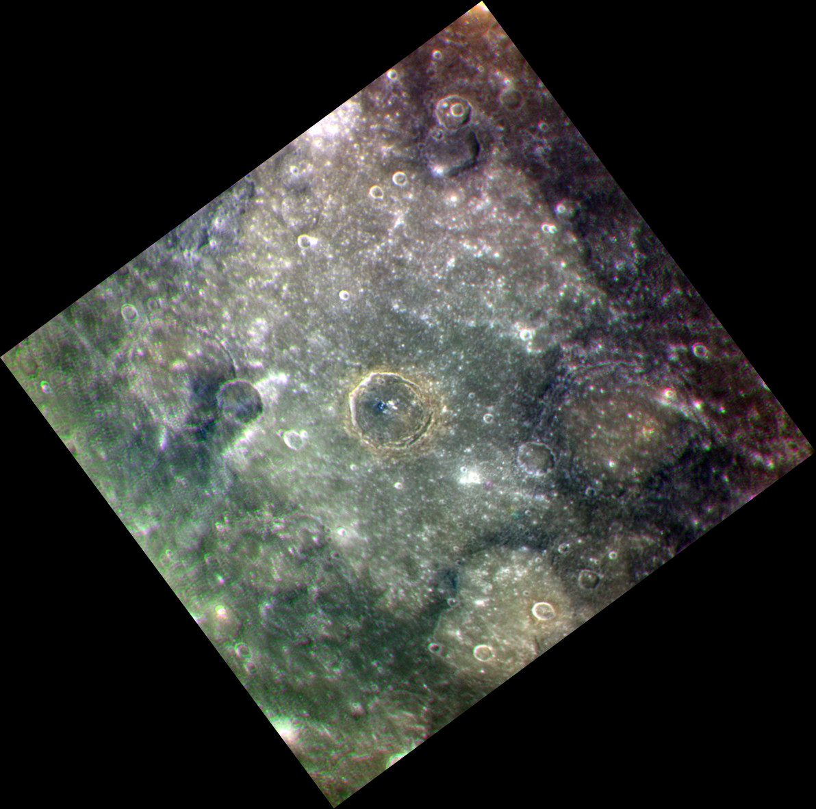 Sihtu Planitia on Mercury. Calvino crater is at center, and Rūdaki is at right. Approximate color representation combining three images acquired by MESSENGER Wide Angle Camera (EW0241251122I, EW0241251142G, EW0241251126F) with I (996.2 nm), G (748.7 nm), and F (433.2 nm) filters. Combined in GIMP software as RGB (Red-Green-Blue), and then rotated so that north is up. Statistics for I image: Emission Angle: 29.5 Incidence Angle: 27.9 Latitude: -4.2 Longitude: 304.7 Phase Angle: 28.1